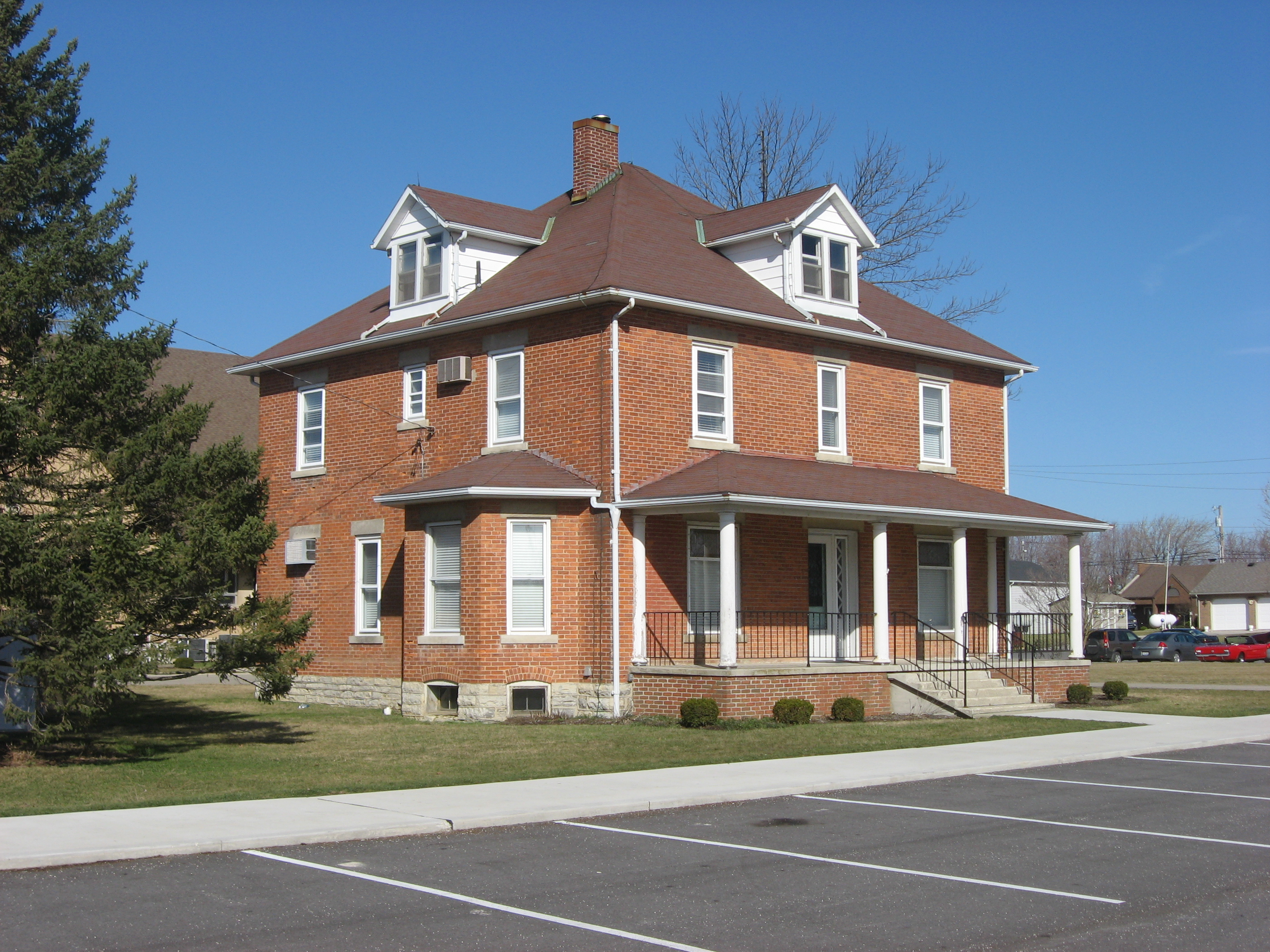 Front and southern side of the Precious Blood Rectory, located along Maple Street in Chickasaw, Ohio, United States. Built in 1904, the rectory is part of a complex of building related to the Precious Blood Catholic Church; the rectory and the former parish school, located on the opposite side of Maple, have been added to the National Register of Historic Places as a part of the Cross-Tipped Churches of Ohio Thematic Resources.